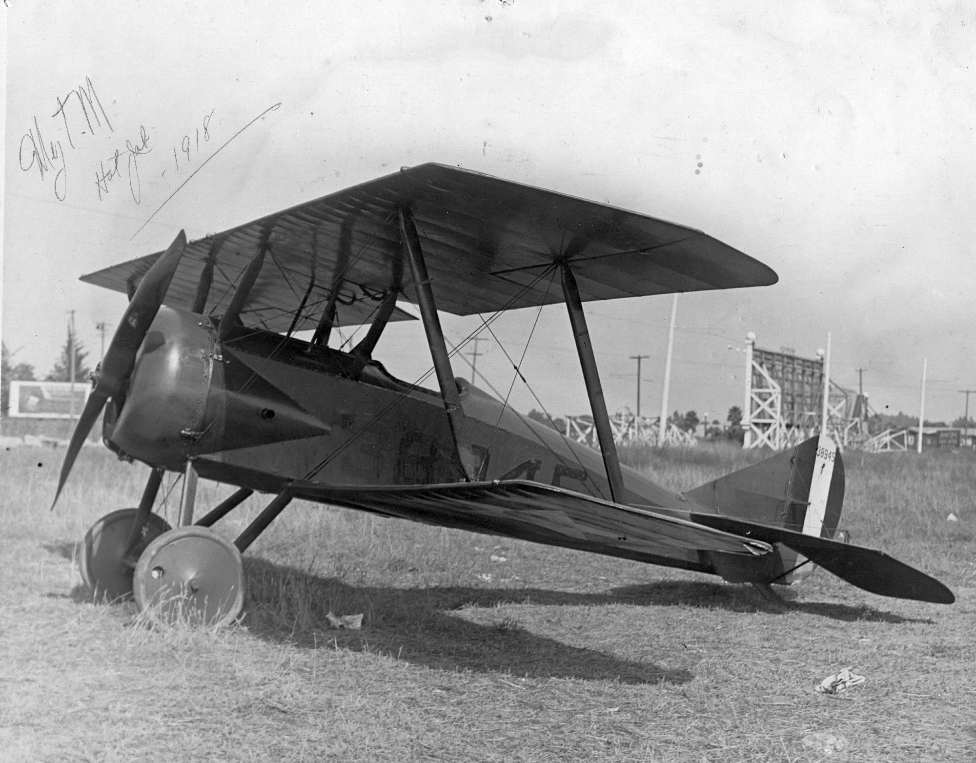 Thomas Morse Sv-4c Scout, 38945, at Rogers Field air show, 1918.